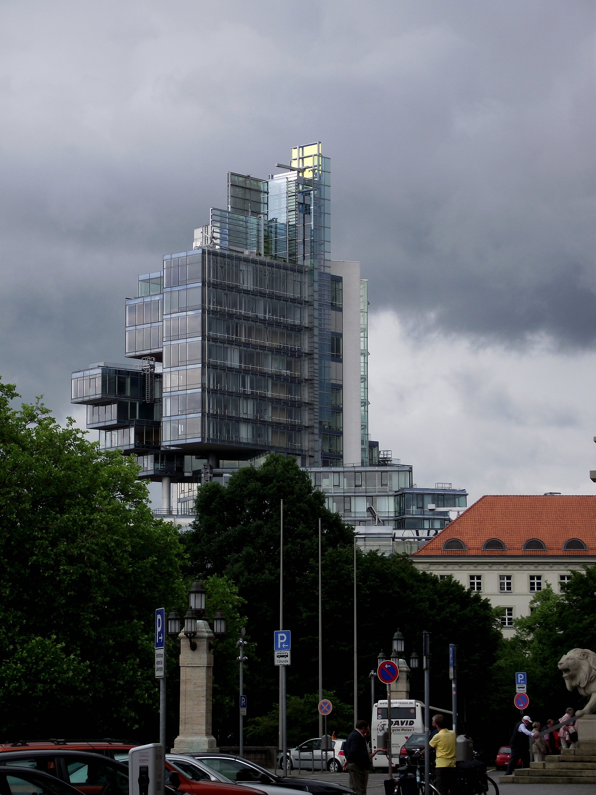 NORD/LB administration building in Hannover, Germany; Dark, cloudy sky and golden reflection on top of the building